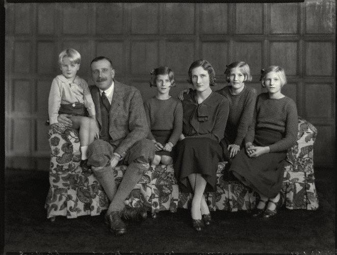 From left: Simon George Robert Monckton-Arundell, 9th Viscount Galway (1929–1971), Son of 8th Viscount Galway. George Vere Arundell Monckton-Arundell, 8th Viscount Galway (1882–1943), Lieutenant-Colonel and Governor-General of New Zealand. Isabel Cynthia (née Monckton), Lady King of Wartnaby (1926–2010), Second wife of Baron King of Wartnaby; daughter of 8th Viscount Galway. Lucia Emily Margaret Monckton-Arundell (née White), Viscountess Galway (1890–1983), Maid of Honour to Queen Alexandra, Justice of the Peace; wife of 8th Viscount Galway and daughter of 3rd Baron Annaly. Hon. Mary Victoria Chaworth-Musters (née Monckton-Arundell) (1924–2010), Former wife of David Henry Fetherstonhaugh and second wife of Robert Patricius Chaworth-Musters; daughter of 8th Viscount Galway. Celia Ella Vere (née Monckton-Arundell), Lady Rowley (1925–1997), Extra Lady in Waiting to Princess Alexandra, Hon. Lady Ogilvy; wife of Sir Joshua Francis Rowley, 7th Bt; daughter of 8th Viscount Galway.